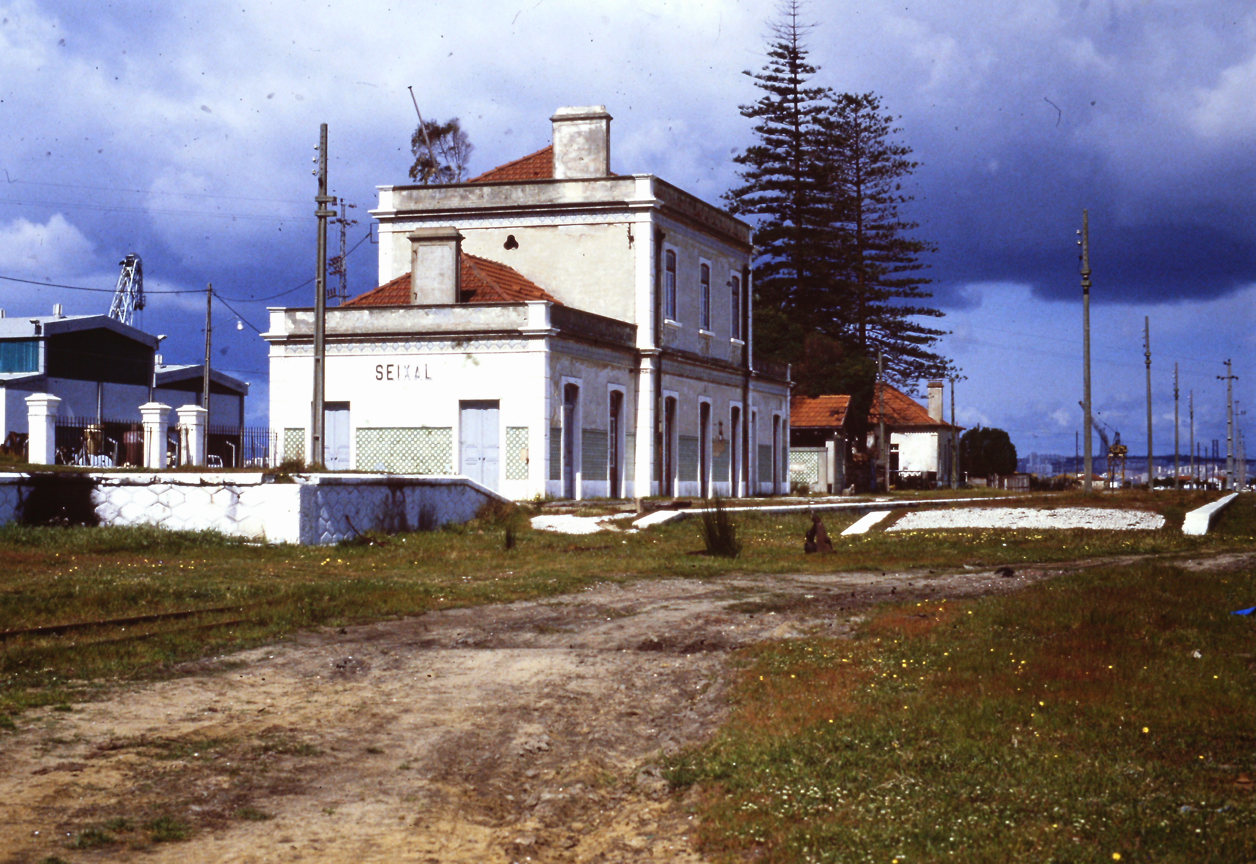 Former train station of Seixal; Seixal, Portugal